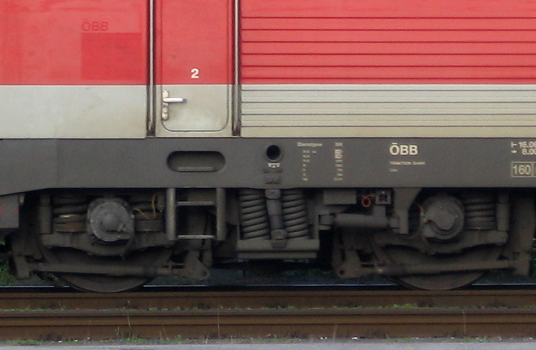 1044 026 in a curve - deformation of secondary suspension is clearly visible